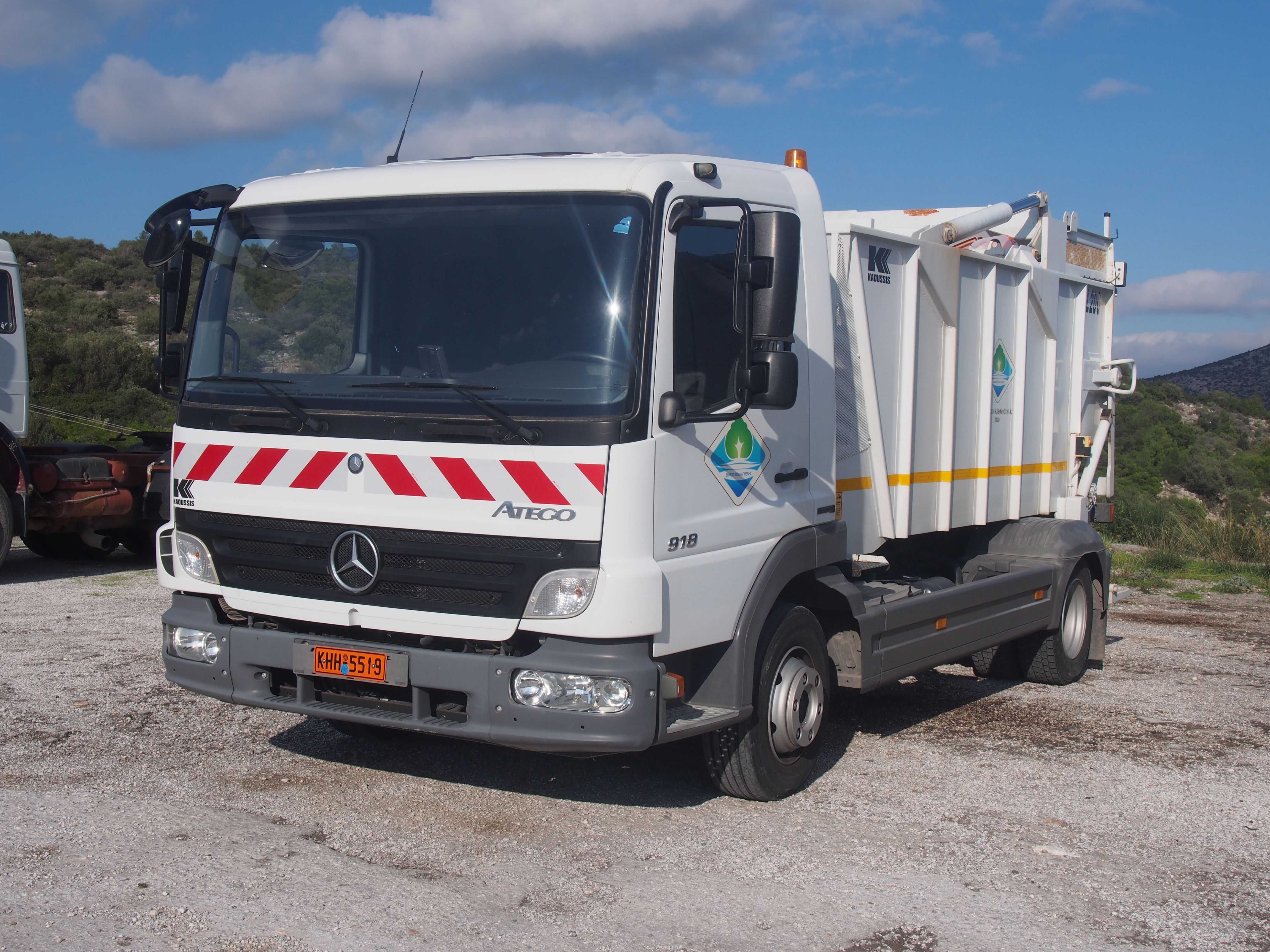 A Mercedes Atego 918, as a waste collection truck. The truck belonged to Vouliagmeni municipality (now Vari-Voula-Vouliagmeni).